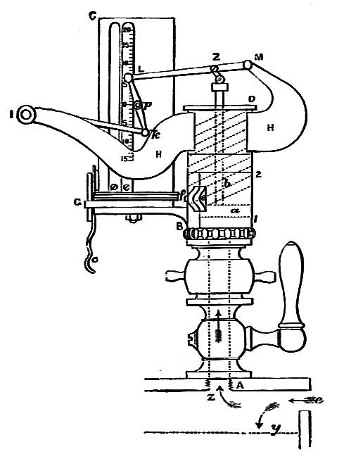 Steam indicator of the Richard's type, similar to the later and more commonly seen Dobbie Mc Innes type. Used to accurately measure the performance of steam engines by plotting a graph of pressure against piston position (and thus volume).